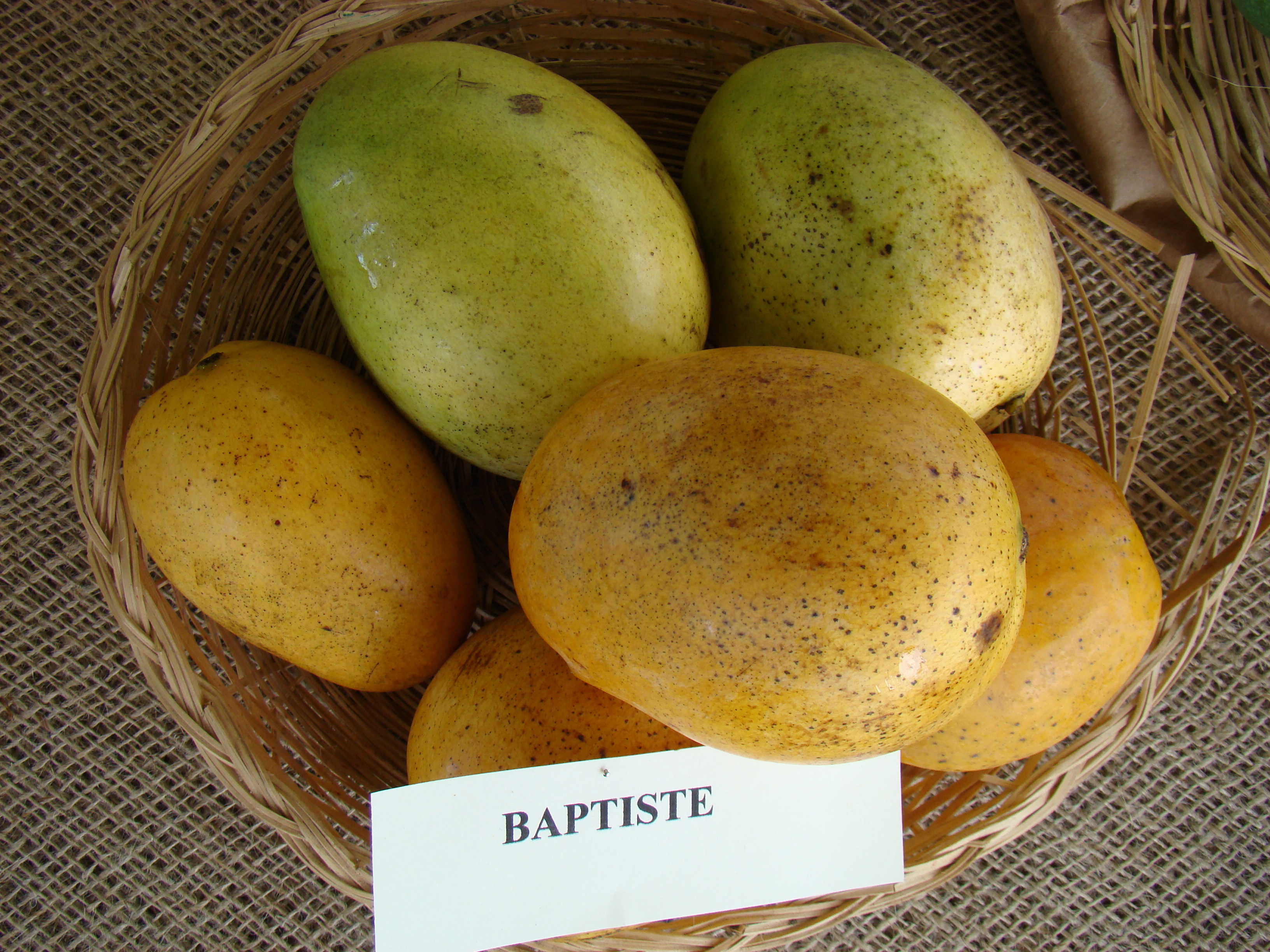 This is a photo of the display of Baptiste mango at the Redland Summer Fruit Festival, Fruit & Spice Park, Homestead, Florida.